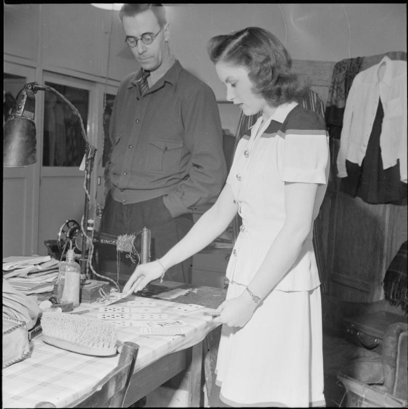 Birth of a Star- Everyday Life For Actress Muriel Pavlow, England, UK, 1945 Actress Muriel Pavlow plays the card game 'Patience' as she waits for her scene to be called at Welwyn Gardens Studios, Hertfordshire. The Wardrobe Master, D A (Bill) Smith, watches her as she plays.